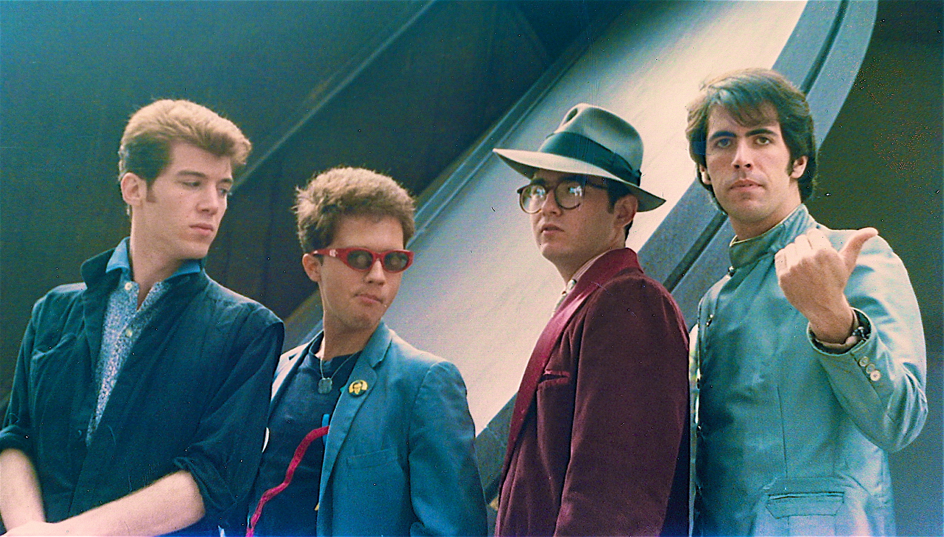 The Metromen were a punk/power-pop band of the late 70s ,early 80s, seen here in New york 1980